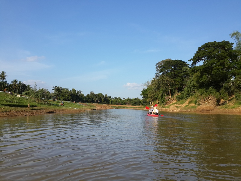 Samlout Sangke River Trail (7)